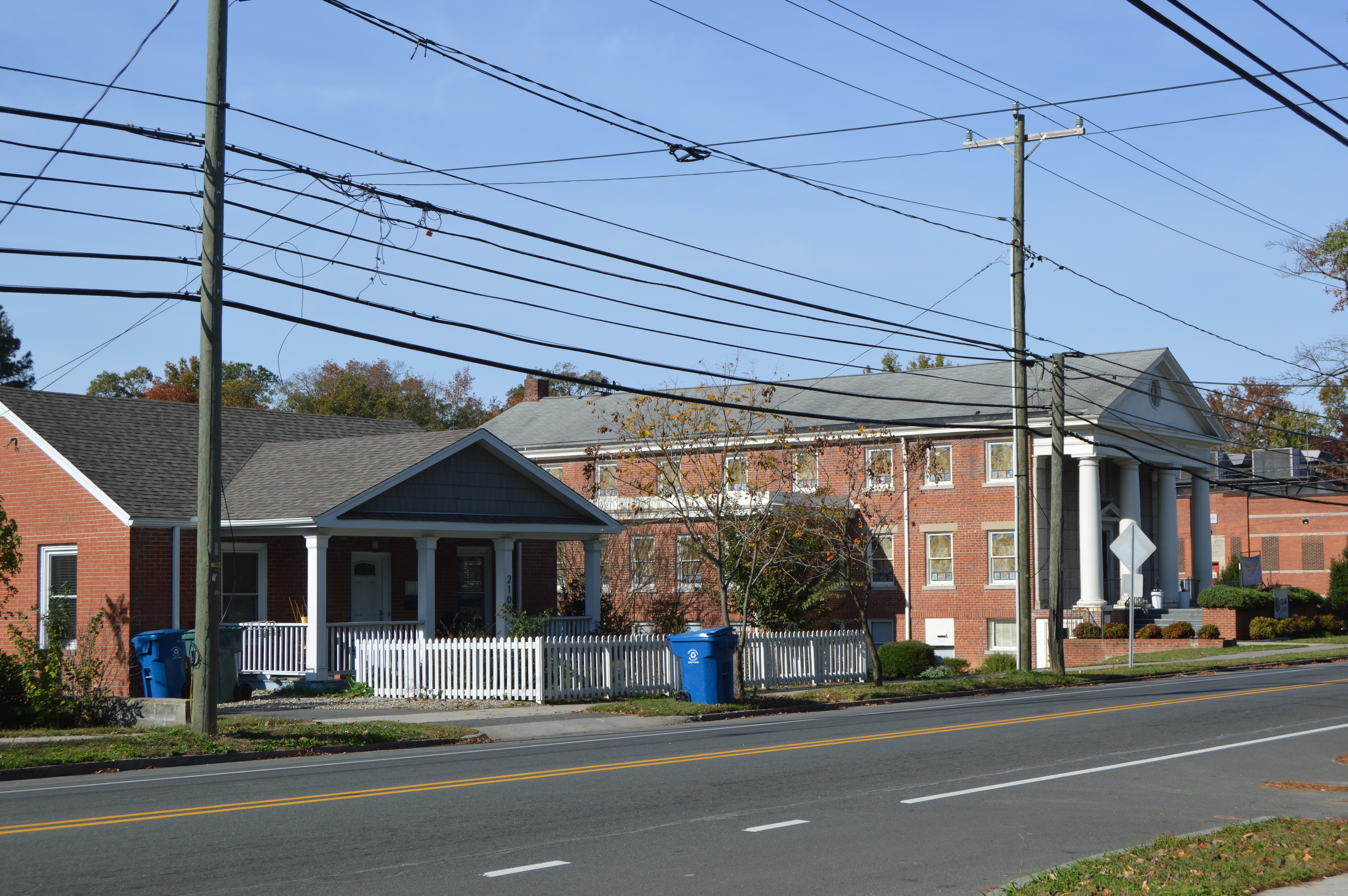 Buildings on the western side of Chapel Hill Road south of Bivins Street in Durham, North Carolina, United States. This block is part of the Lakewood Park Historic District, a historic district that is listed on the National Register of Historic Places.